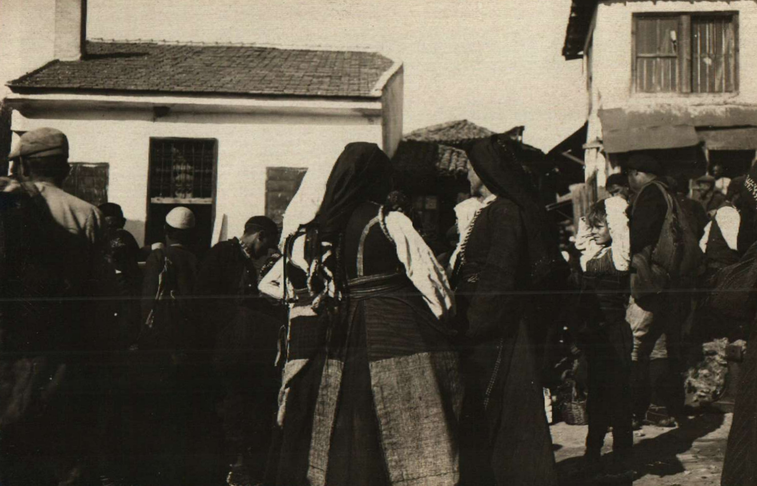 National costume of Macedonia